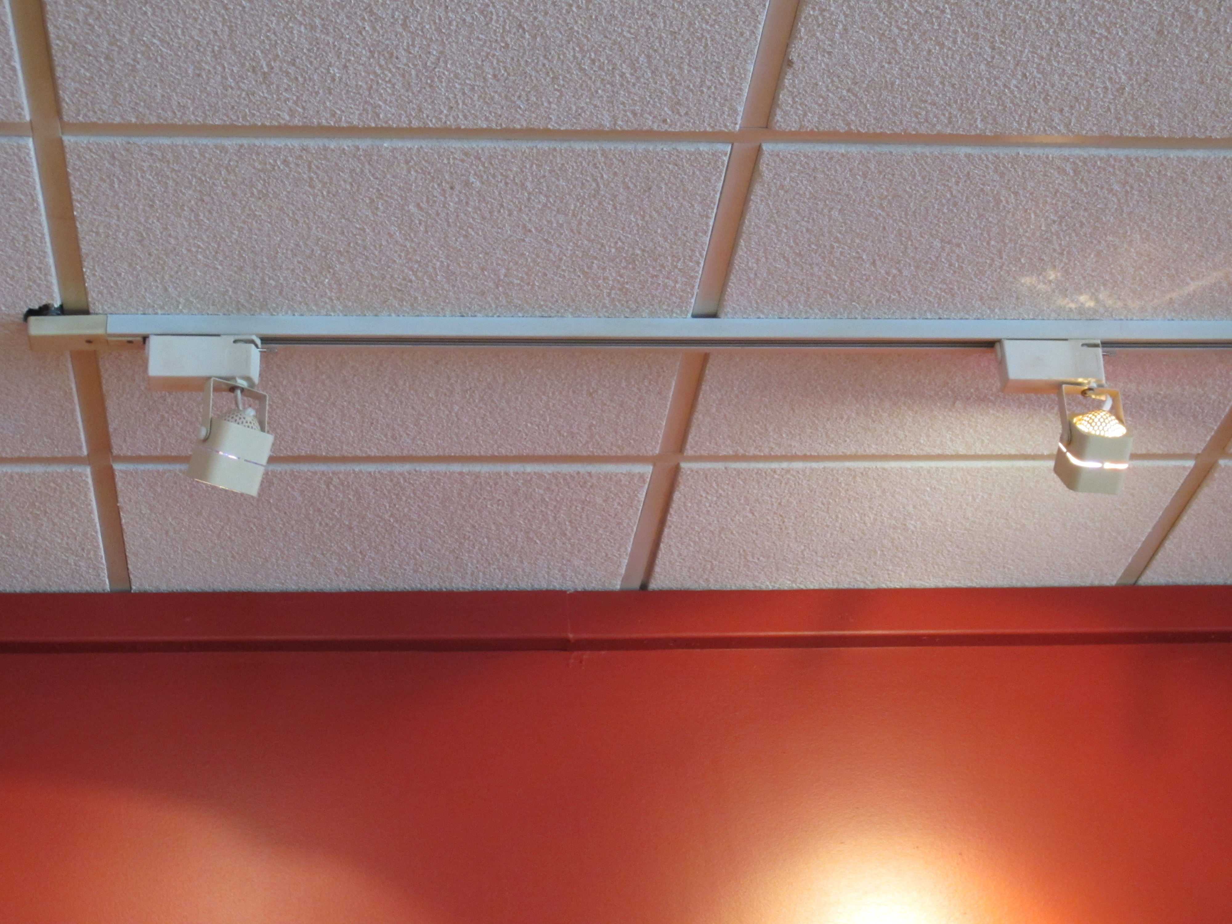 Overhead track lighting at a restaurant in Winnipeg. The light fixtures can be placed anywhere along the track and aimed to highlight pictures on the walls. These are low-voltage halogen lamps with built-in transformers mounted on the track.